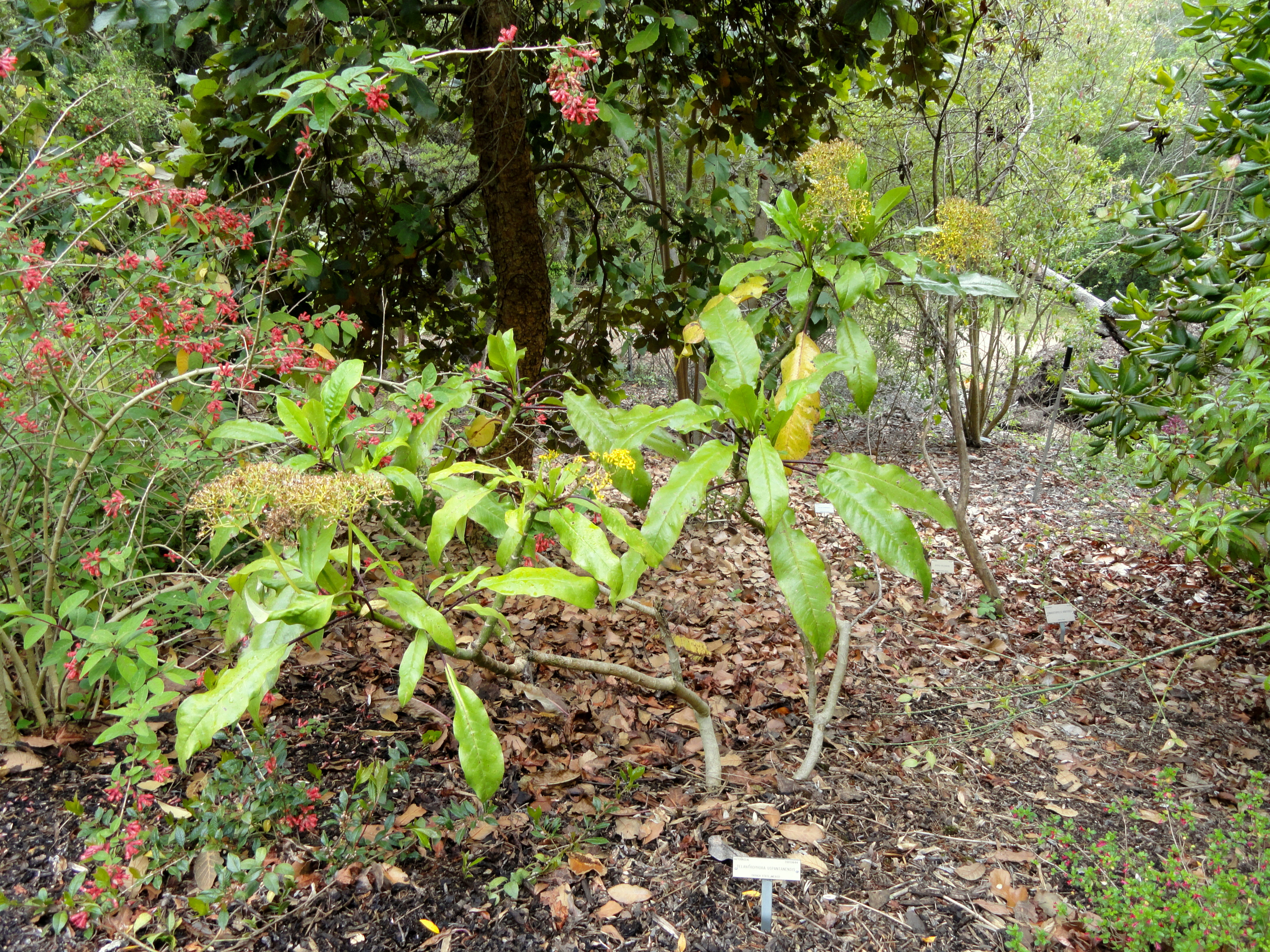 Telanthophora uspantanensis specimen in the University of California Botanical Garden, Berkeley, California, USA.